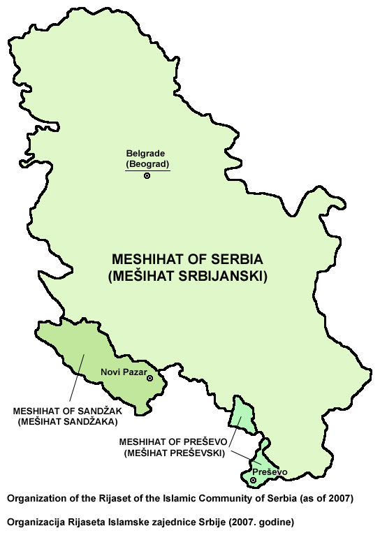 Organization of the Rijaset of the Islamic Community of Serbia (as of 2007). Srpski /